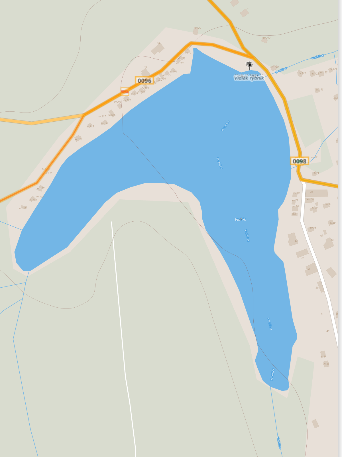 Vidlák (Černíny) 1. Schema. Kutná Hora District, the Czech Republic.